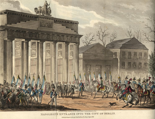 G. Cruikshank: Napoleon's Entrance into the City of Berlin